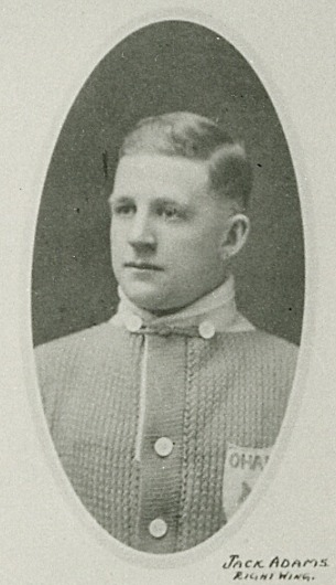 Jack Adams of the Toronto Arenas hockey club ca. 1917–1918.